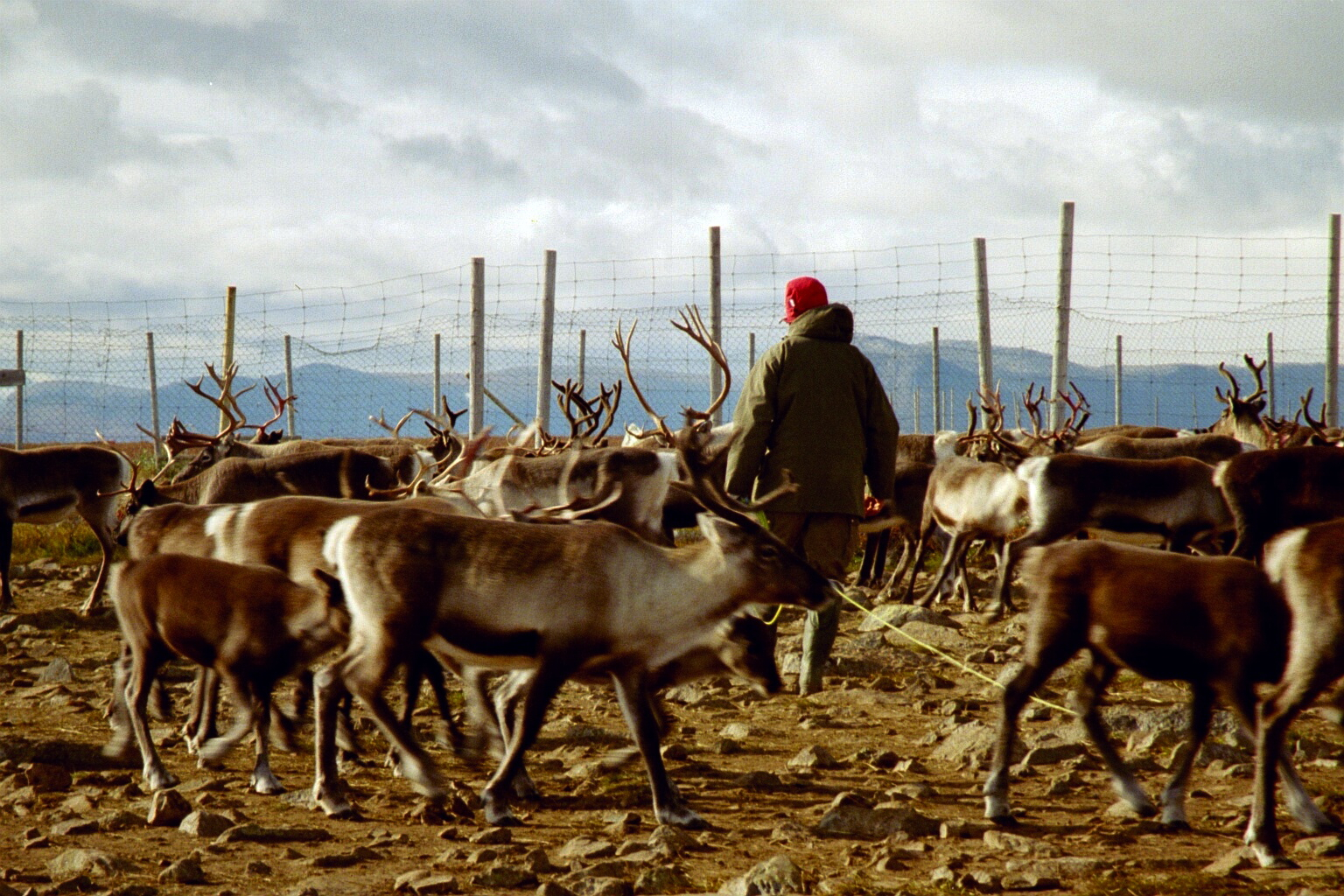 Sami reindeer herder in Sweden. Original caption: Just another day at work